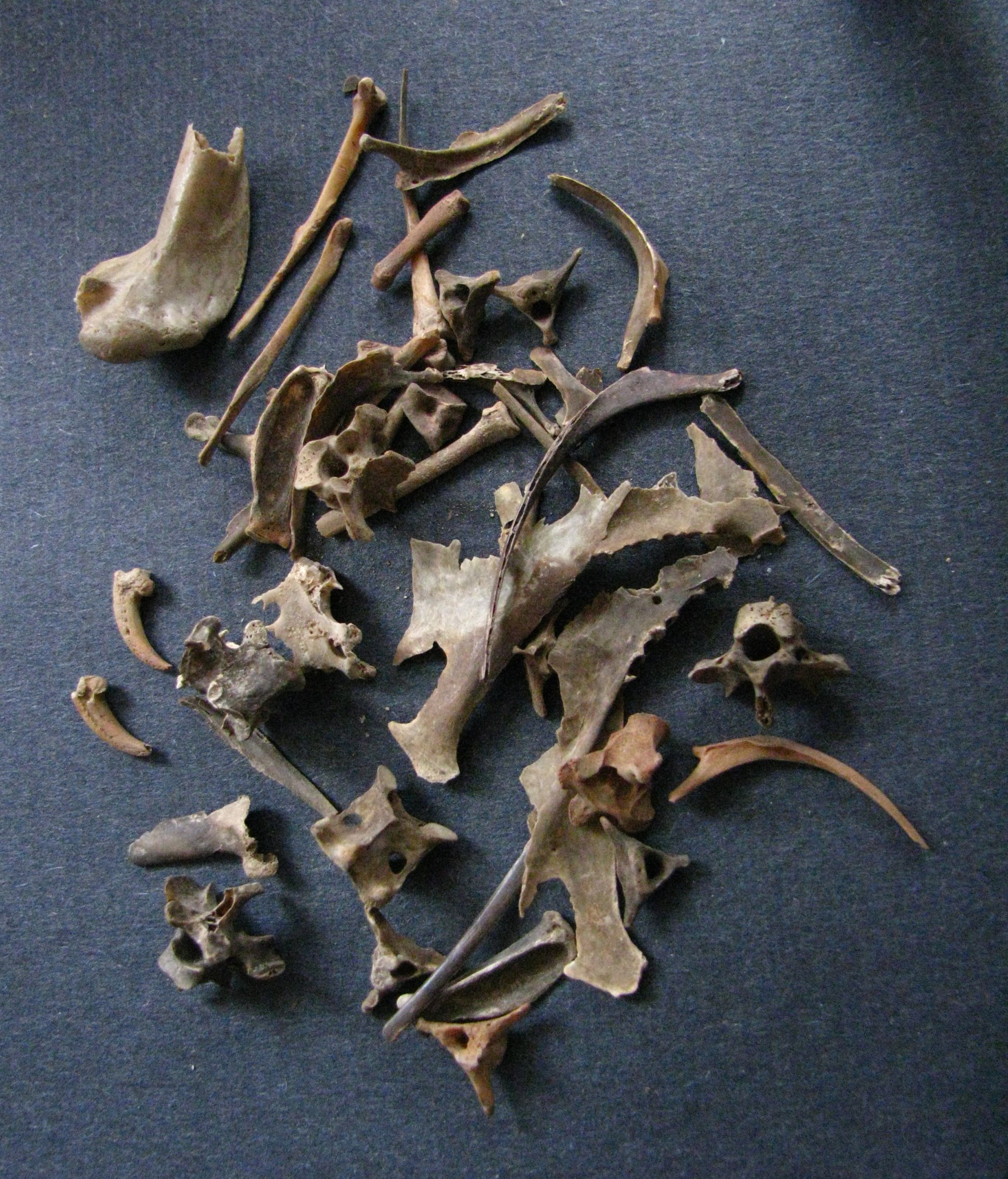 The Hawaiian Islands once had three distinct crows (Corvus). One species remains and it is extremely rare, the Hawaiian crow or ʻalalā (Corvus hawaiiensis). The other two are extinct. These fossils represent one or two of the Slender-billed crow (Corvus viriosus) and the Deep-billed crow (C. impulviatus). Pictured is a variety of bones and claws (two on the left). These specimens came from the Barber's Point sinkholes, Oʻahu, Hawaiian Islands. Identified by the late Alan C. Ziegler in 1992.